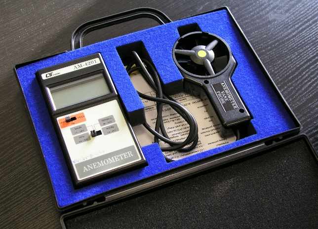 Mobile, hand held anemometer (AM-4201, Lutron Electronic Enterprise CO.).